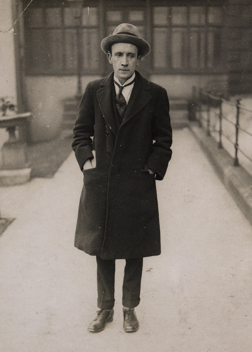 Kevin O'Higgins standing close to some building, one of the victims of assassination during the Civil War. Photographer: W. D. Hogan Collection: Hogan Wilson Collection Date: 1922 NLI Ref.: HOGW 46 You can also view this image, and many thousands of others, on the NLI’s catalogue at